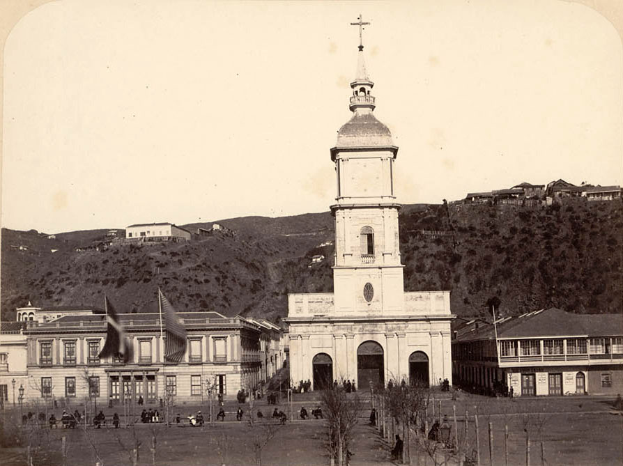 "Plaza de la Victoria, Valparaiso, Chile, 1865." [photographic print]